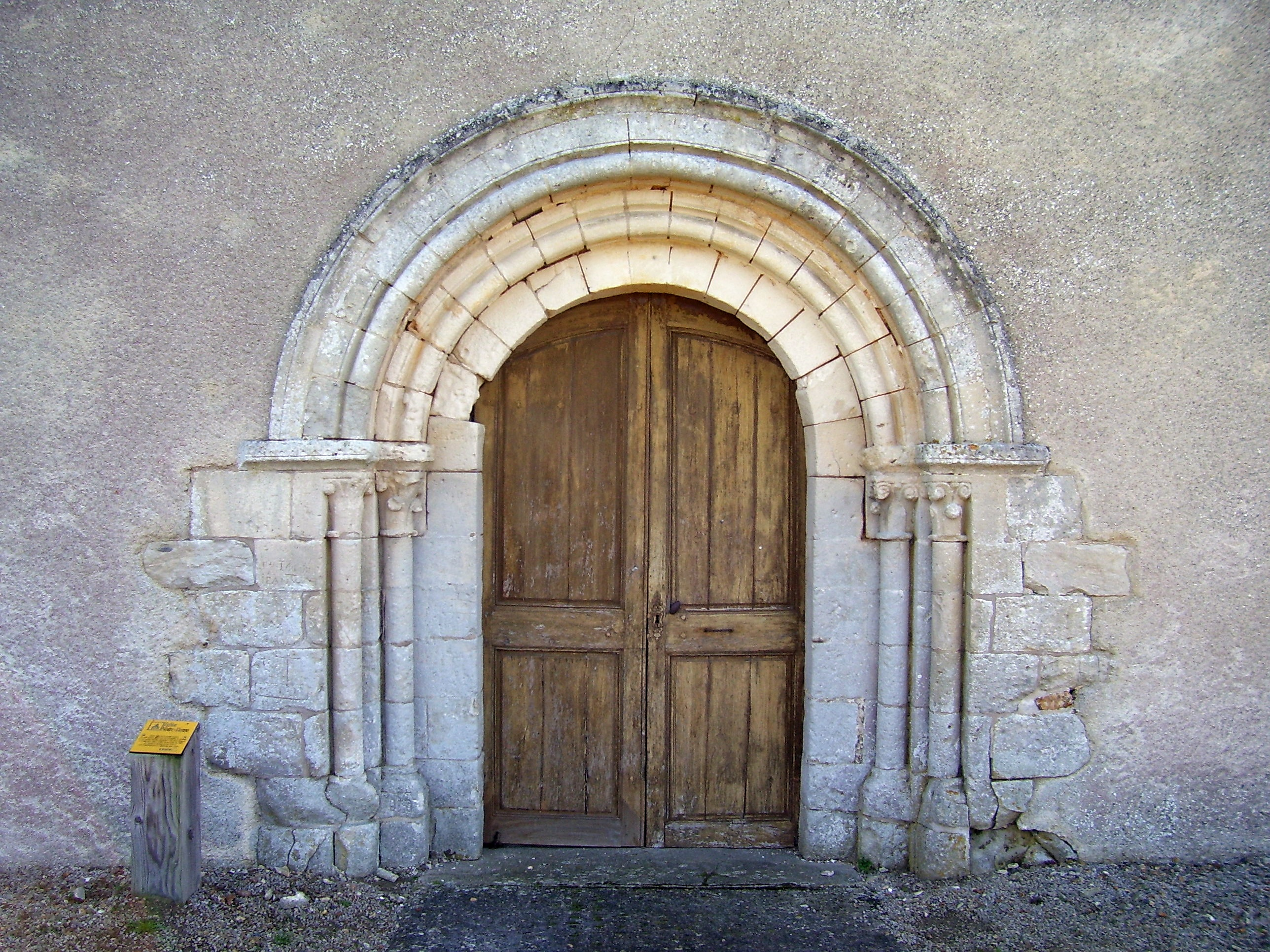 Portal of the church Notre-Dame in Neuville-sur-Authou (France). It was built in the second half of the 12th century.